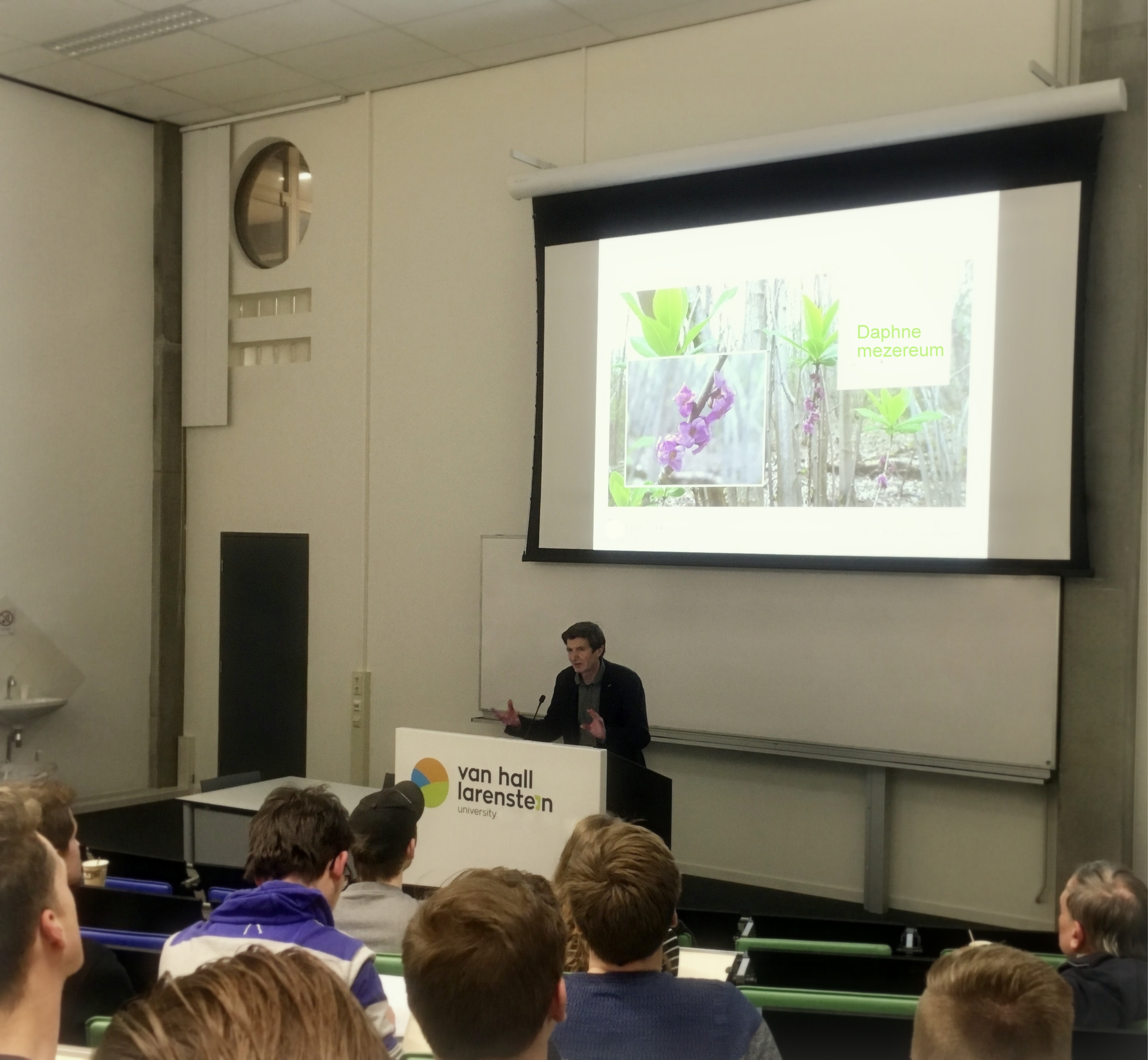 Lecture by professor Joop Schaminée at VHL University (Velp, Arnhem). Schaminée is a Dutch authority in the field of plant communities and syntaxonomy.